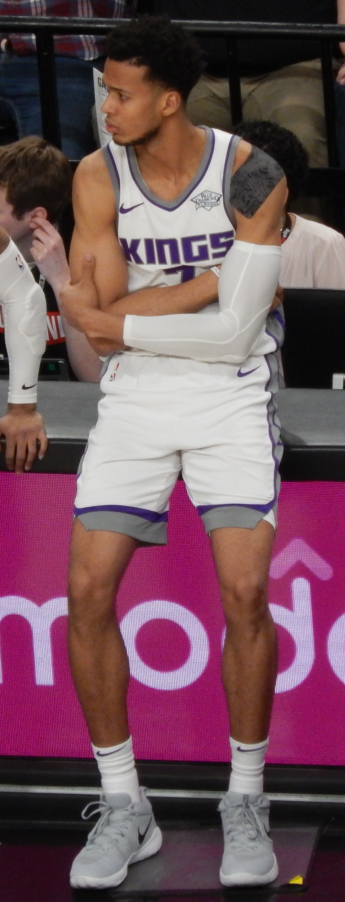 Skal Labissière #7 of the Sacramento Kings against the Portland Trail Blazers on February 27, 2018 at Moda Center in Portland, Oregon.